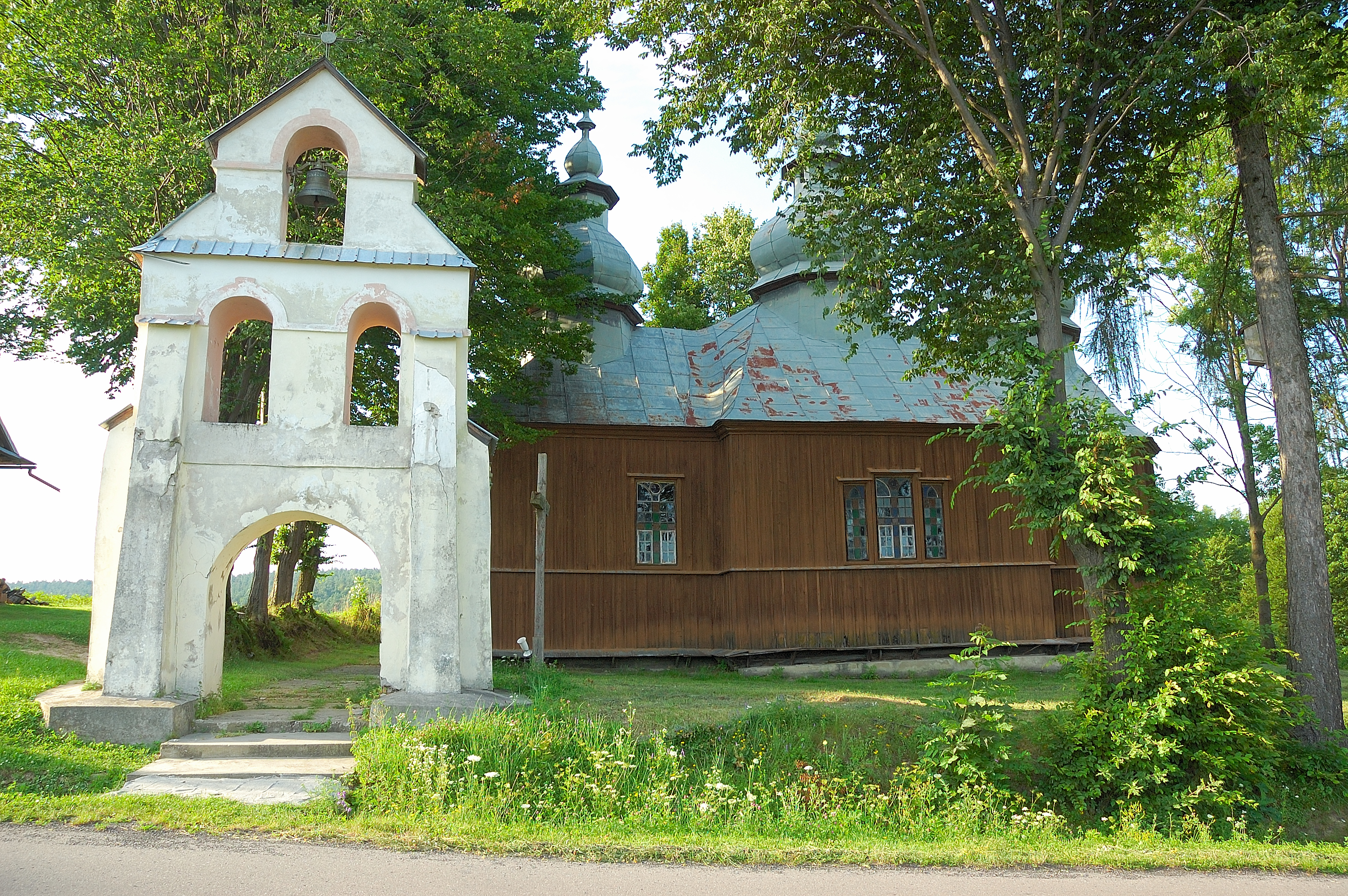 Orthodox church in Jawornik Ruski